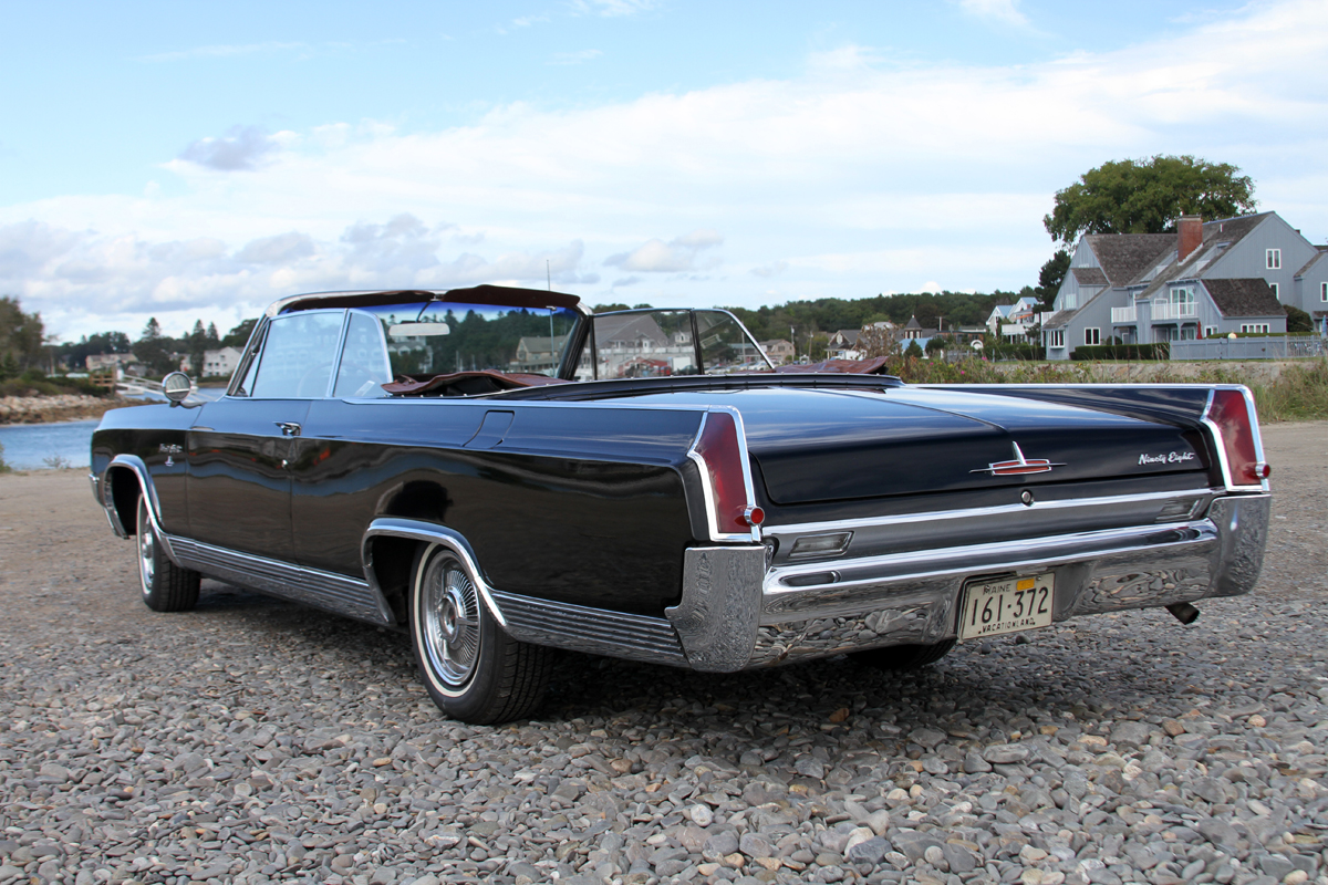 [Oldsmobile 98